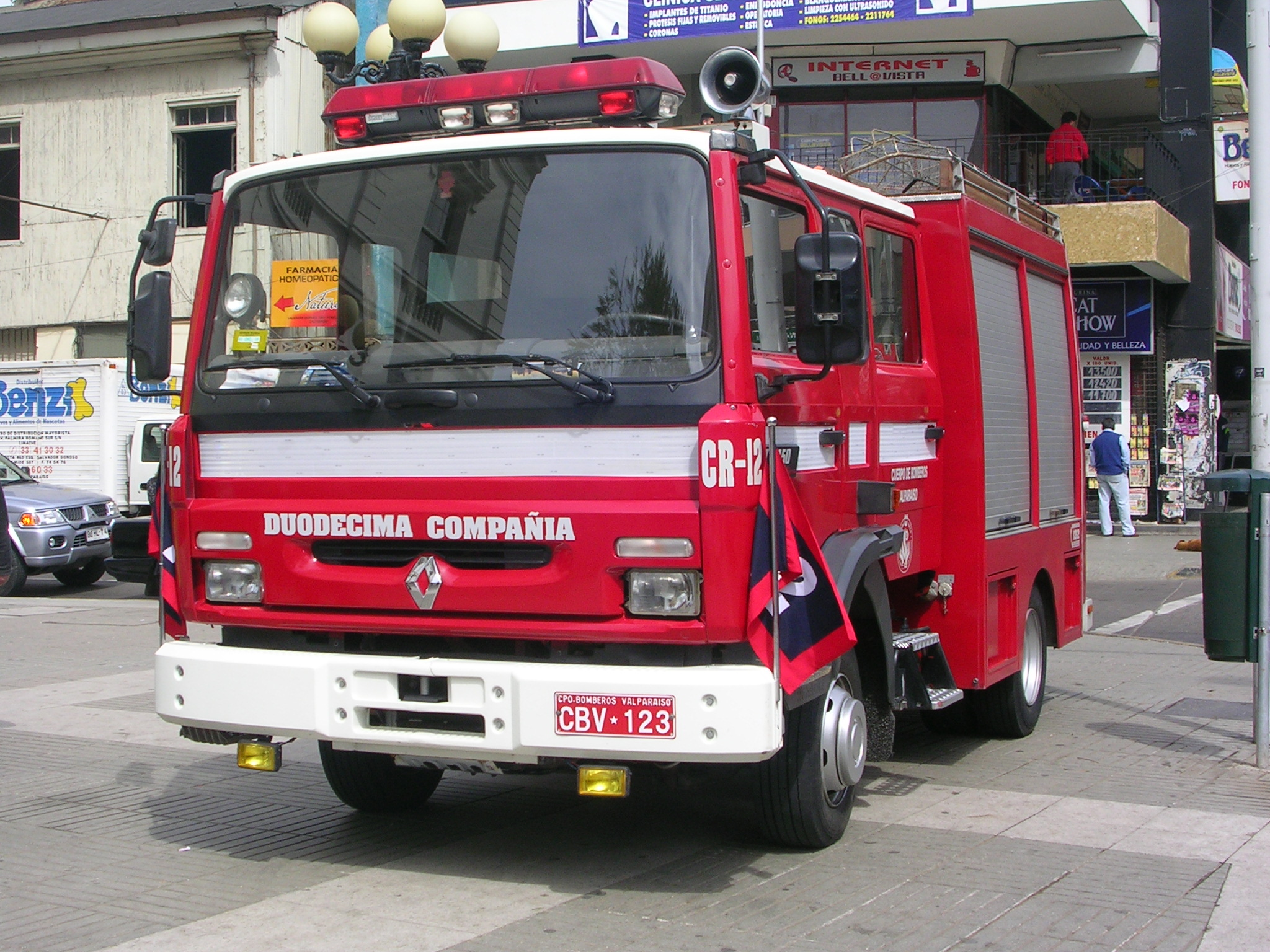 Fire engine (Fire truck)